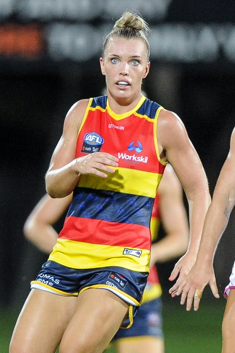 Abbey Holmes in the AFL Women's preseason match between the Adelaide Football Club and Fremantle Football Club on 20 January 2018 at TIO Stadium.